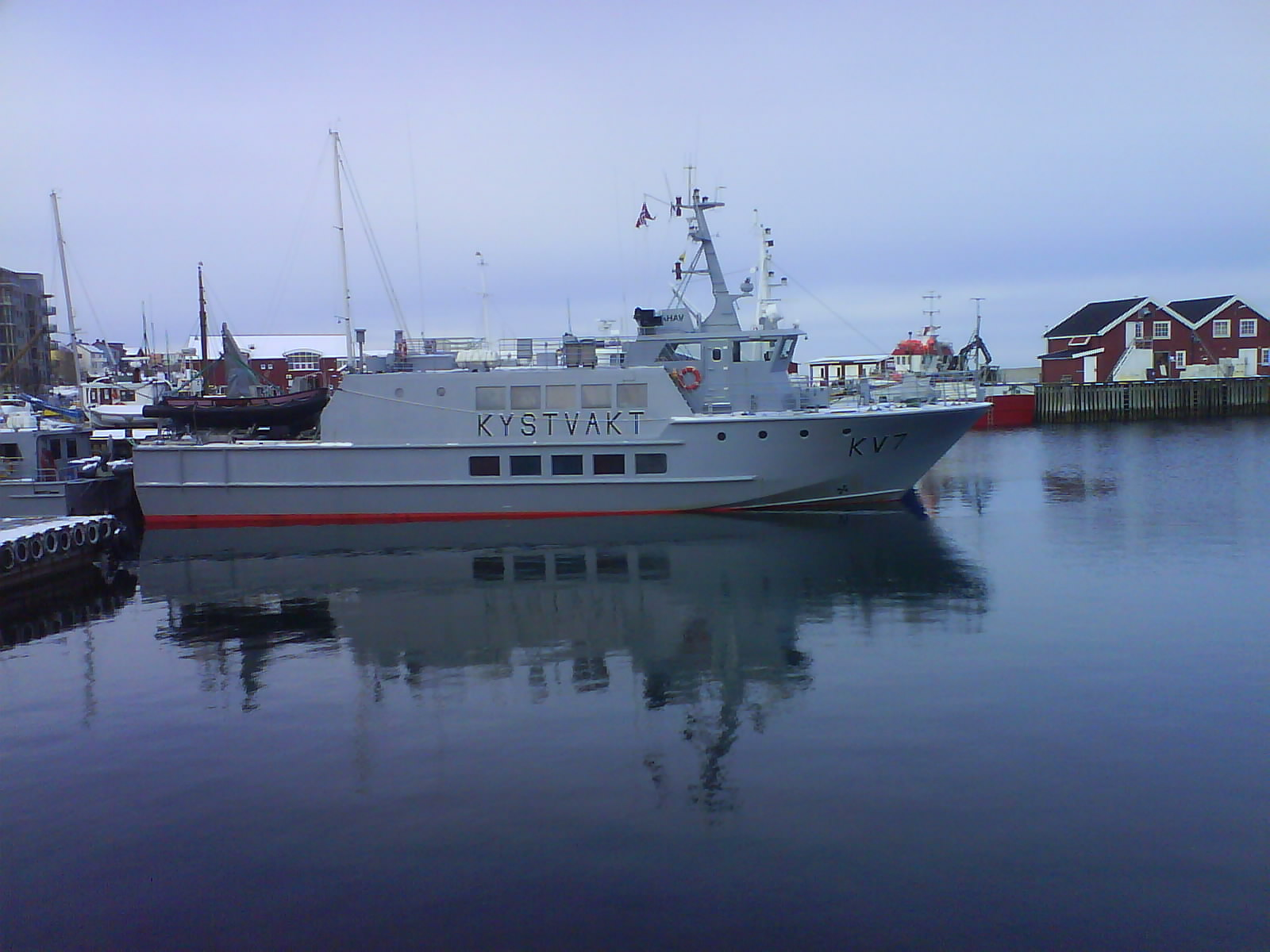 The Norwegian Coast Guard ship KV Åhav in the city of Bodø.